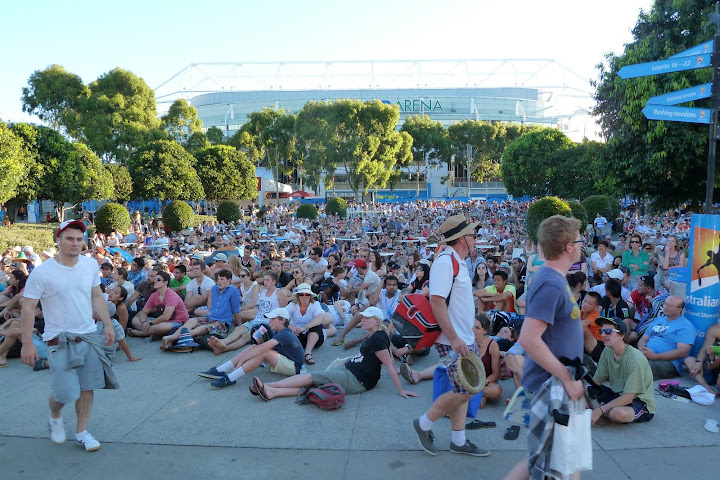 Melbourne Park during the middle Saturday of the 2012 Championships